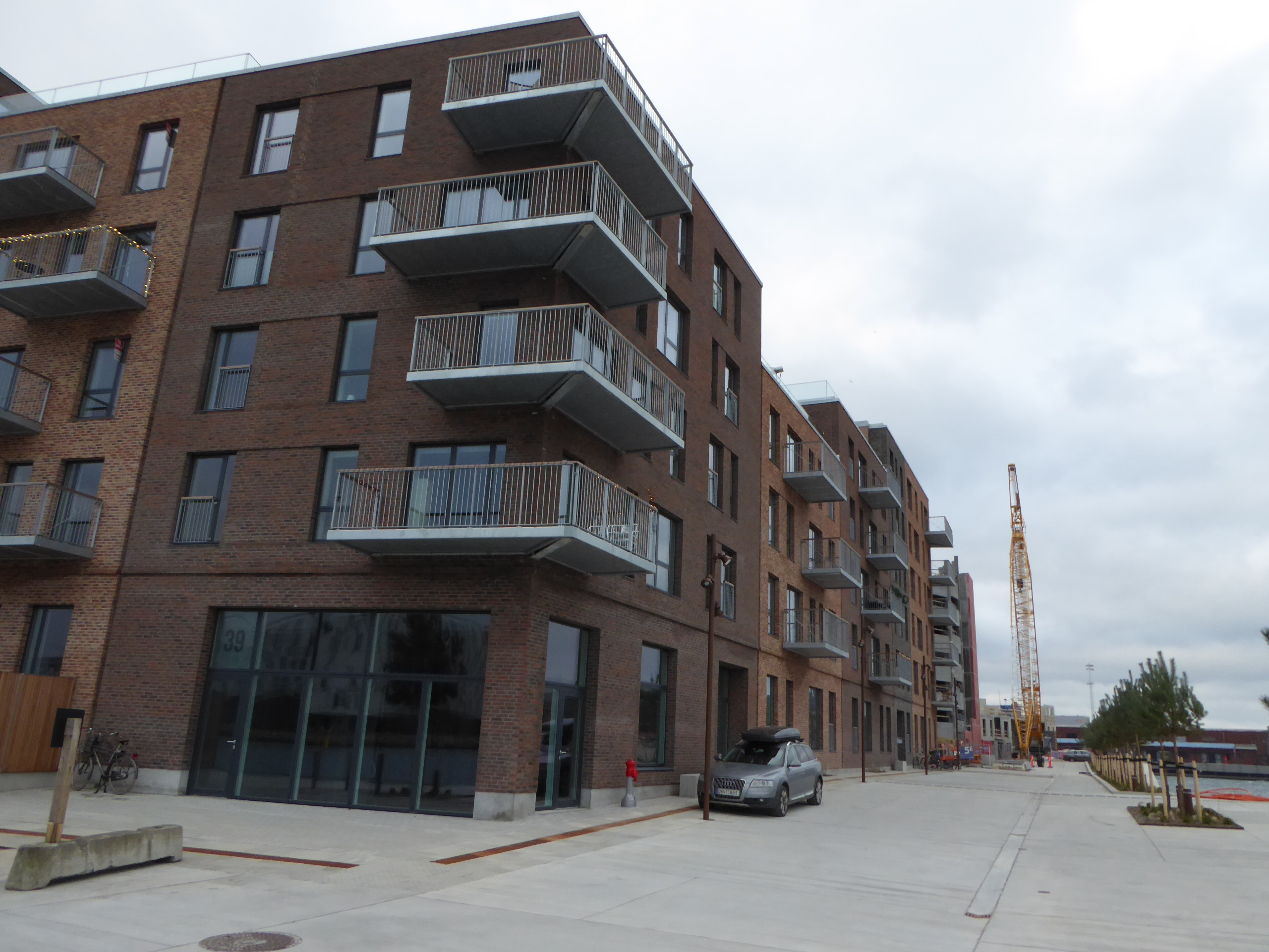 The street Murmanskgade at Sandkaj in Nordhavn in Copenhagen. At the left the apartment building Harbour Park.